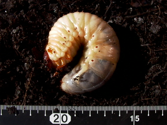 larva of Japanese rhinoceros beetle(Trypoxilus dichotomus)